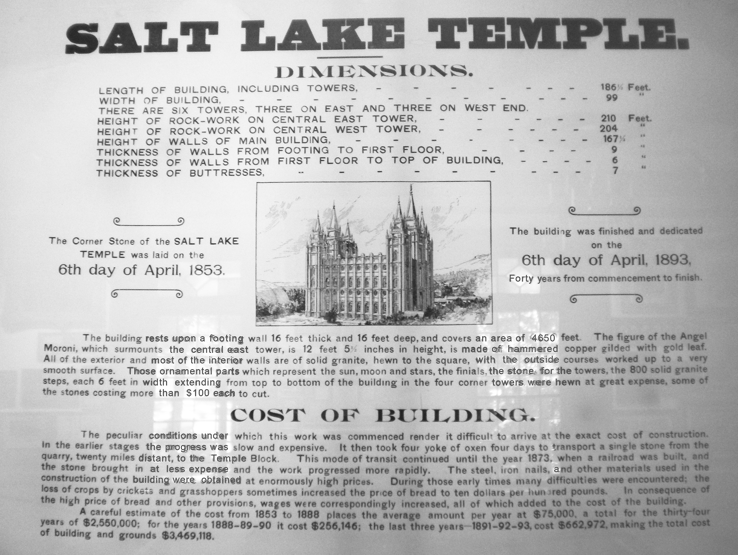 Photo of plaque hanging in the Little Rock Chapel at Lagoon's Pioneer Village detailing the Salt Lake City Temple construction.